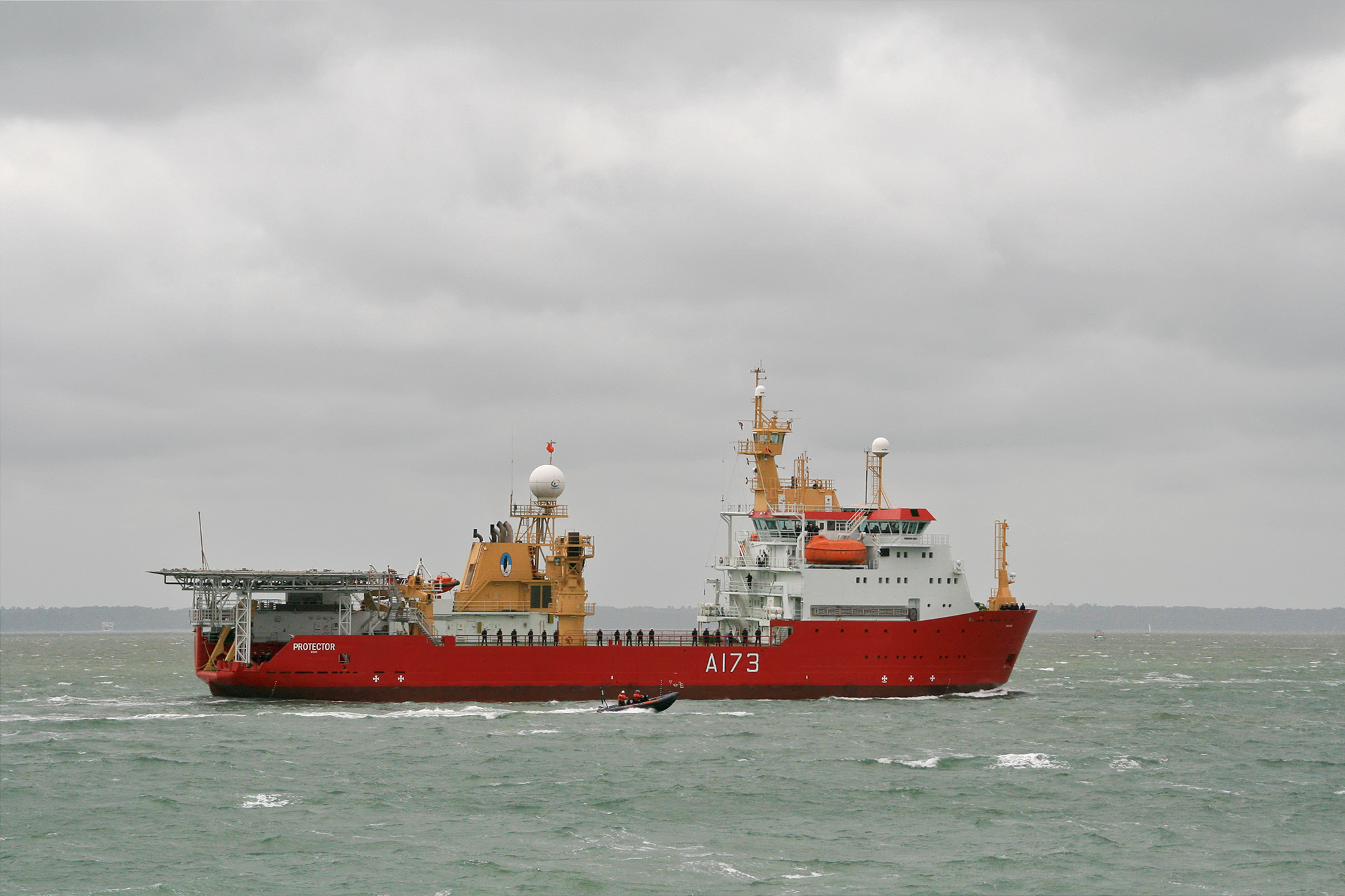 Antarctic icebreaker MV Protector inward bound to Portsmouth Naval Base with a naval crew lining the deck. Note the helipad repositioned over the stern, and the penguin unit image on the funnel. Protector is leased to the Royal Navy as a short-term replacement for HMS Endurance. The image was taken shortly before she was commissioned as HMS Protector.